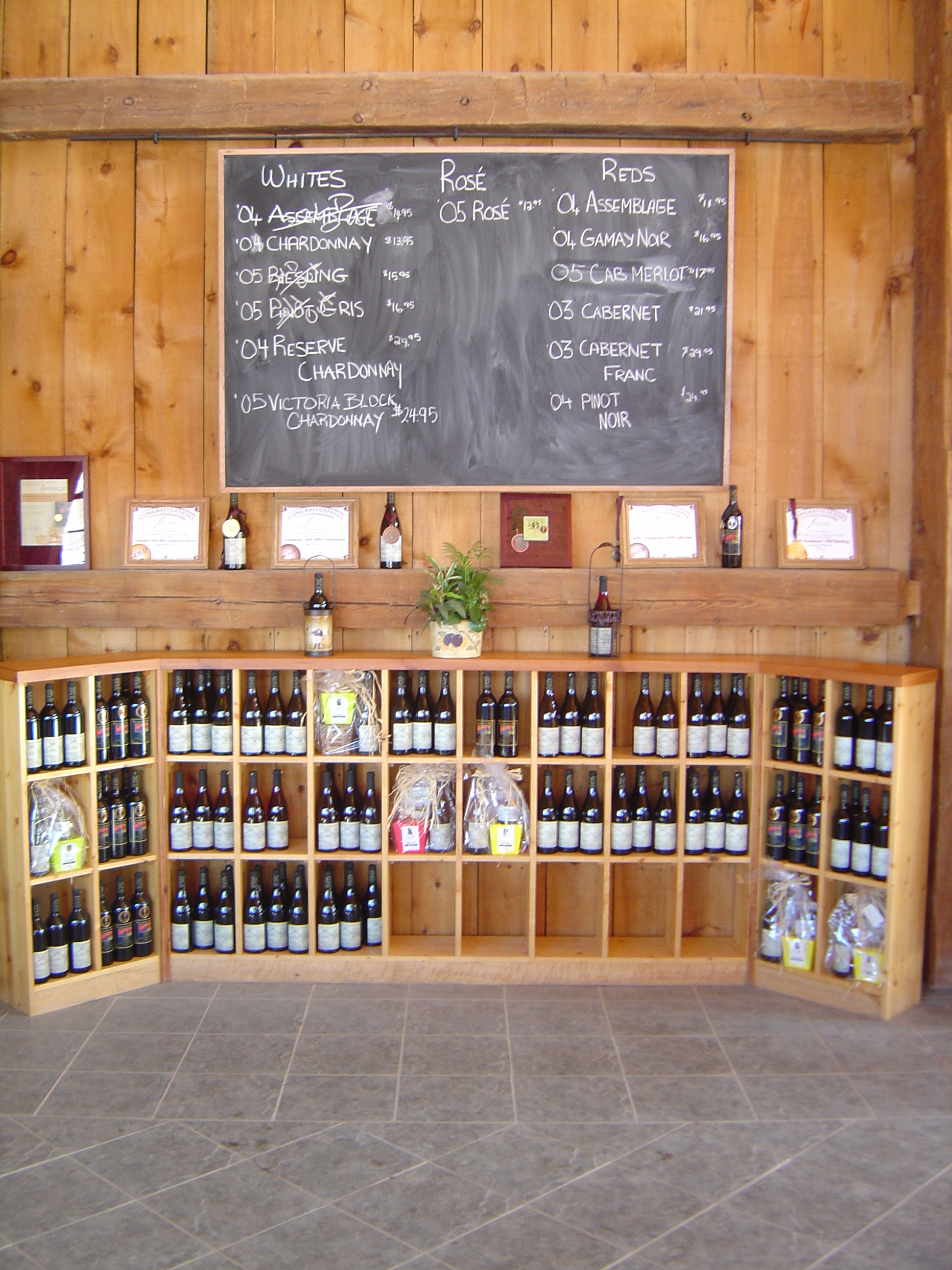 Wine bottles in a Shop in Ontario Canada